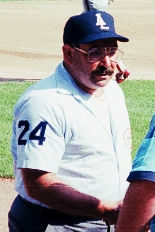 Bill, the family friend who invited us to the game, catches up with Al Clark, the umpire manning third base that day.